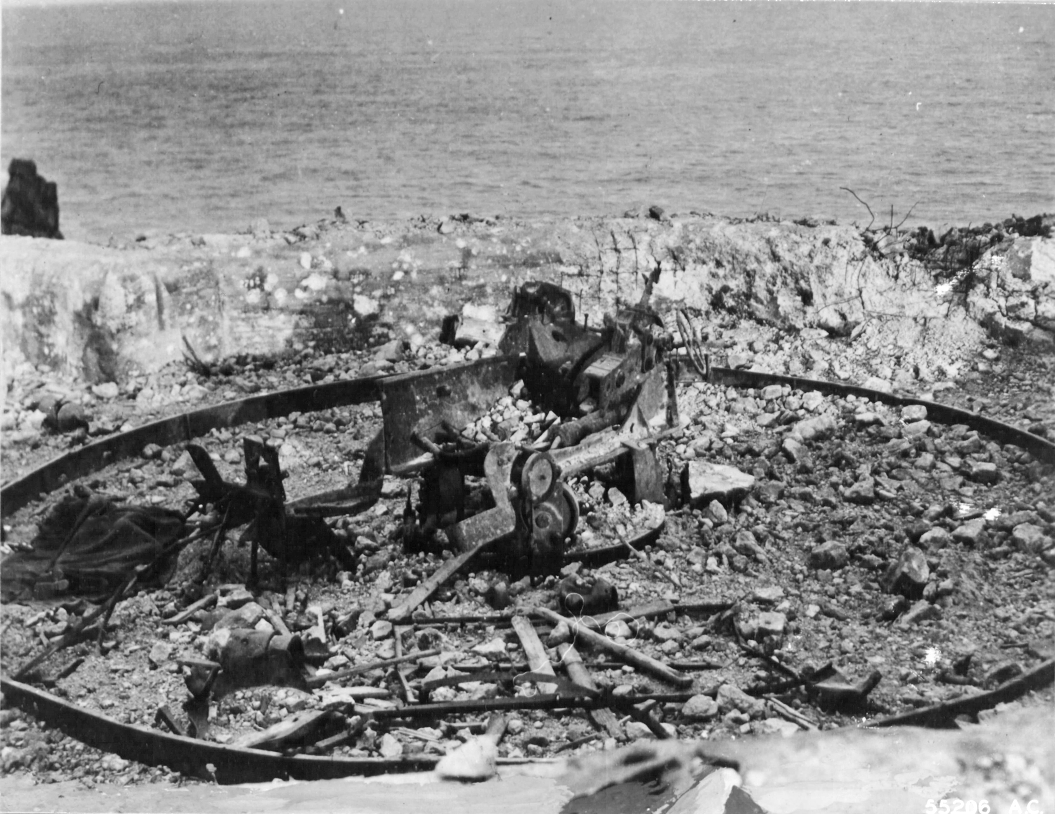 Remains of a gun on the island of Cézembre (Britanny, France), destroyed by American and British bombing on August 1944. There were six of those old French guns on the island.